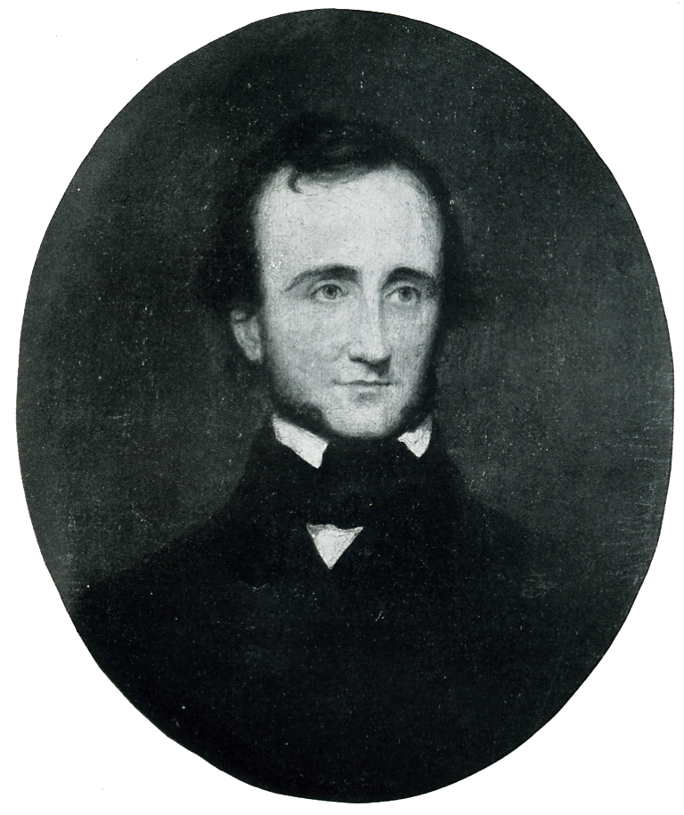 Portrait of Edgar Allan Poe painted by Samuel Stillman Osgood. Original in the possession of the New York Historical Society.